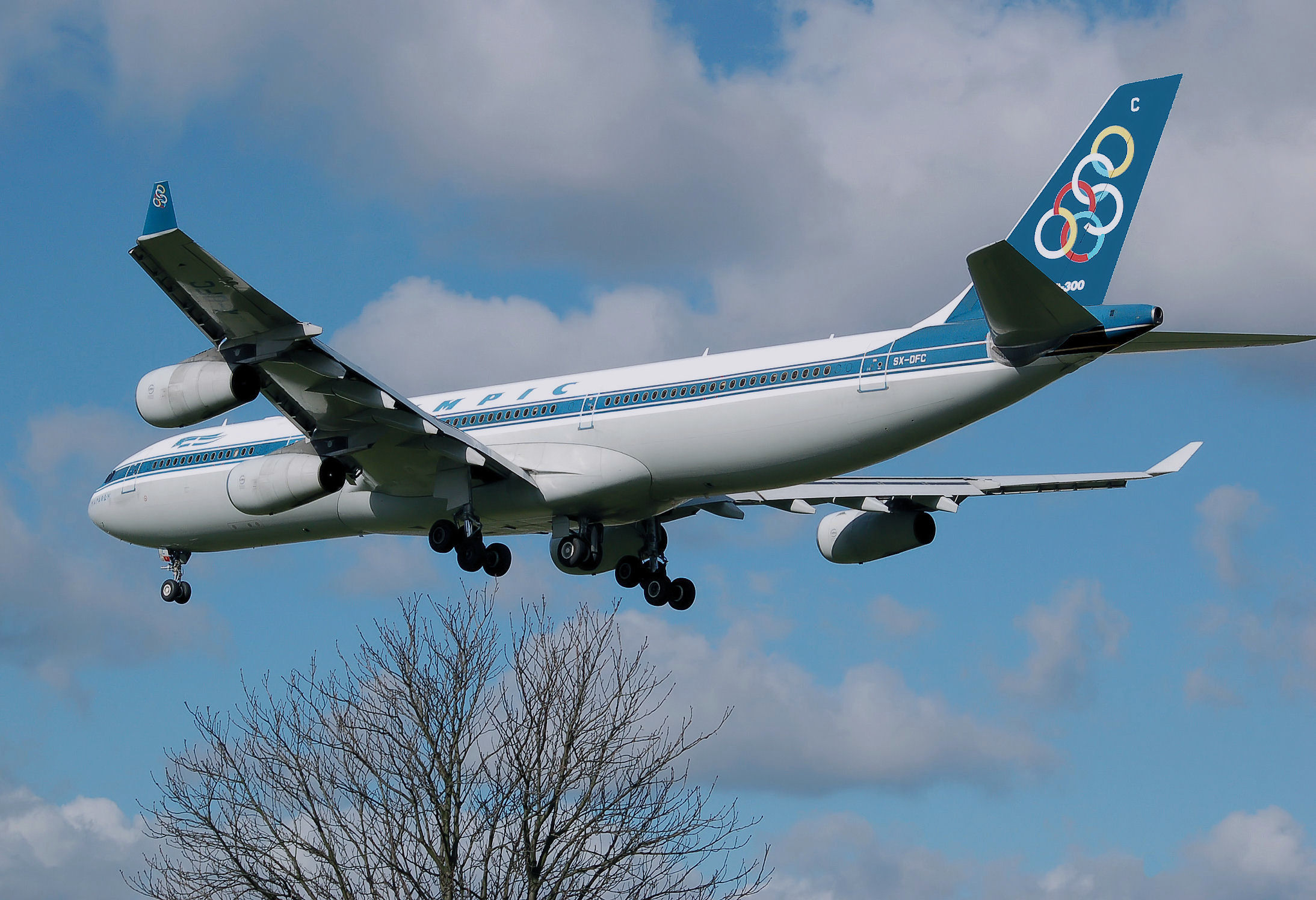 Olympic Airlines Airbus A340-300 (SX-DFC) landing at London Heathrow Airport.